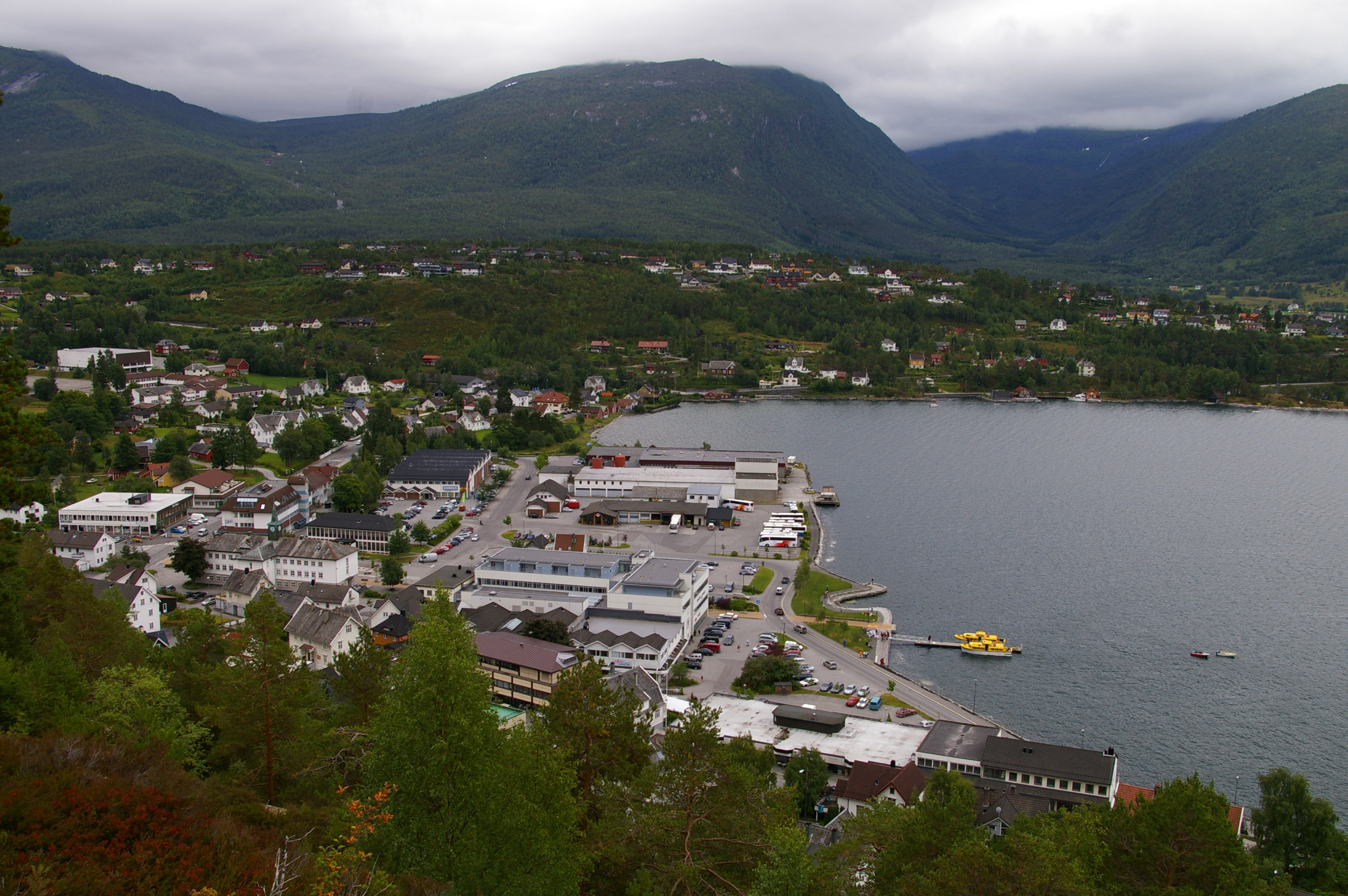 Sandane in Gloppen, Sogn og Fjordane, Norway.